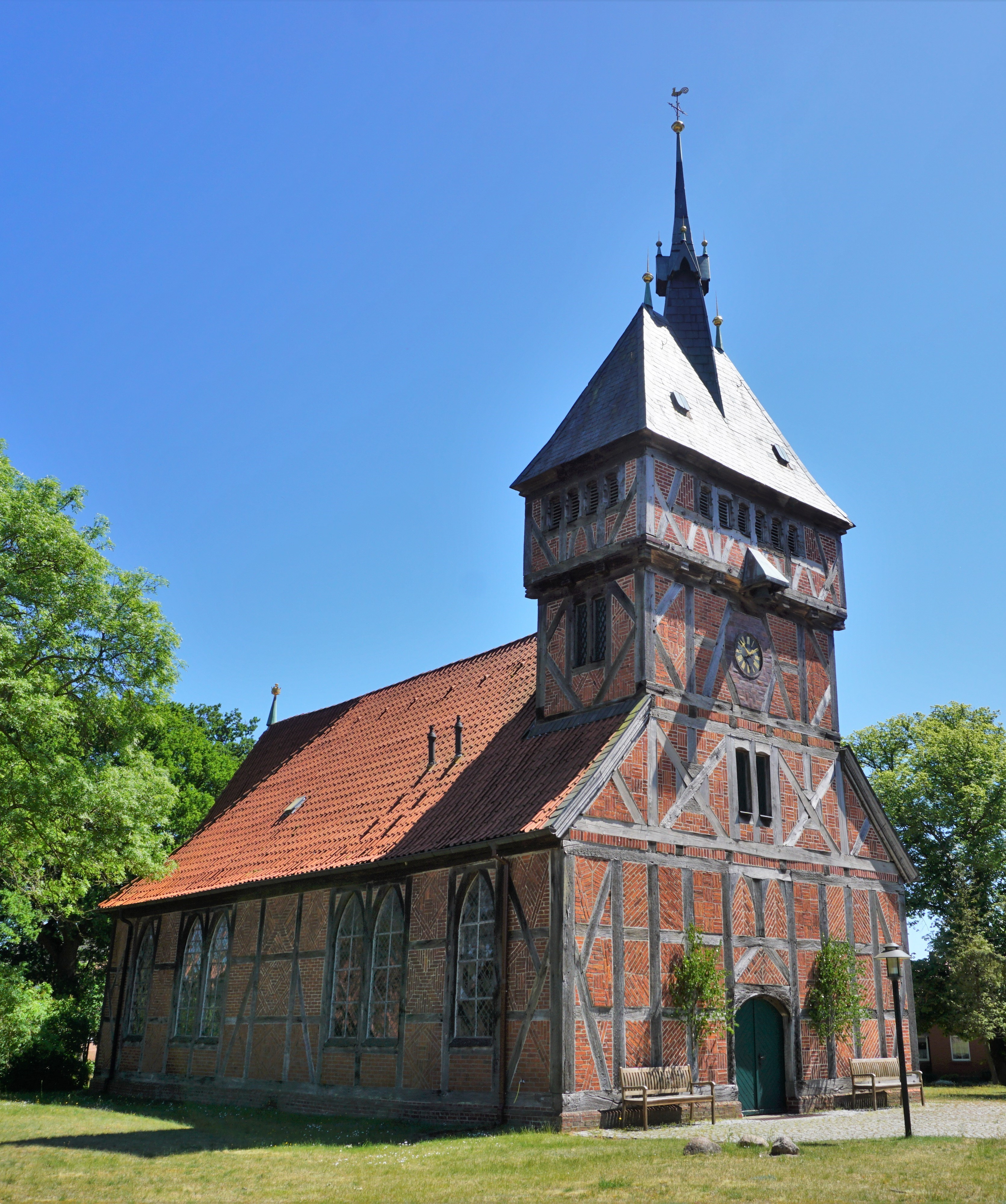 View from northwest to the St.-Marien-Church (Tripkau)